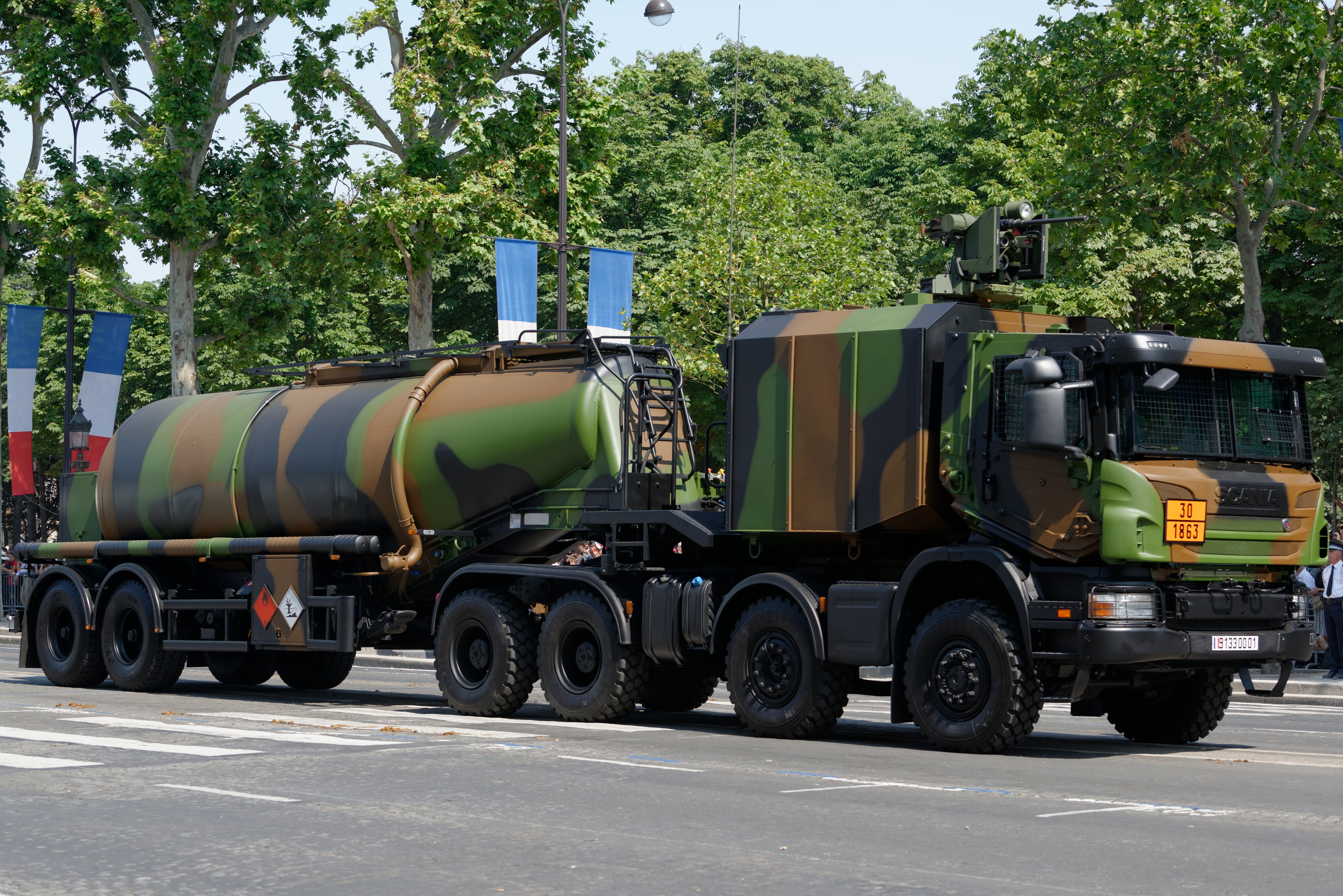 Military fuel tanker truck CaRaPACE from the Military Fuel Base of Chalon-sur-Saône at the Bastille Day 2013 military parade on the Champs-Élysées in Paris.